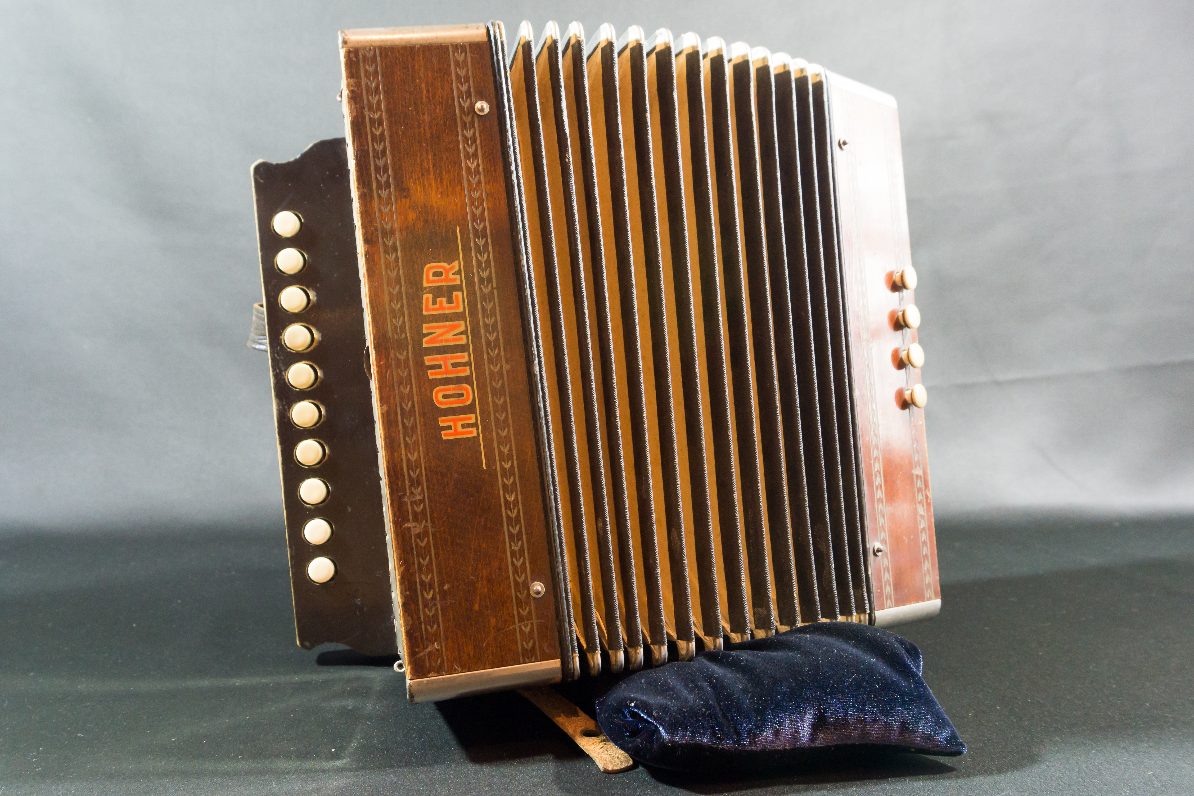 Wiki loves Music - Hamburg 2017: Musical Instruments up close. Hohner Accordion